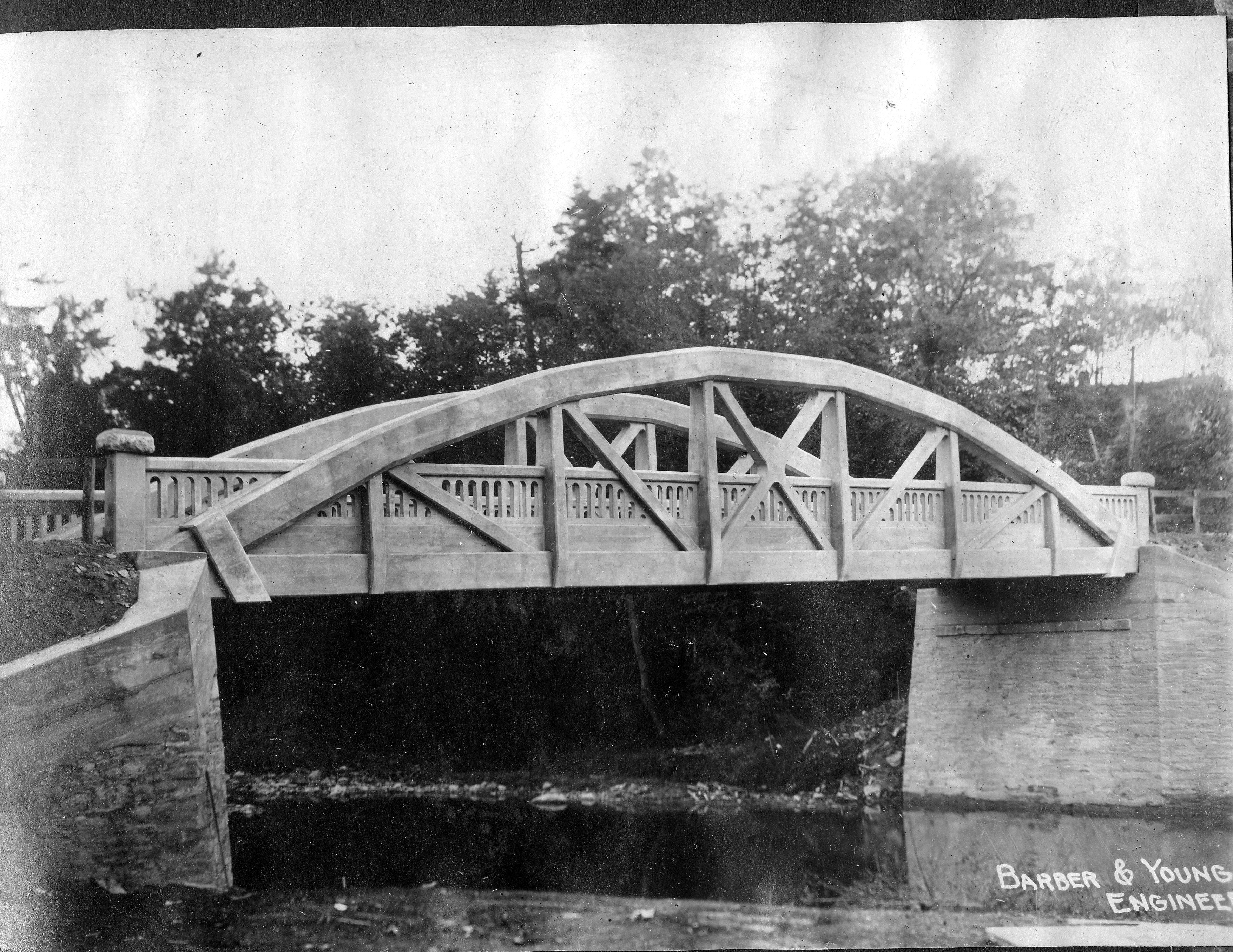 This was the first concrete truss bridge built in Canada. It was designed by Frank Barber and built by Octavius Hicks. It still stands in 2018.